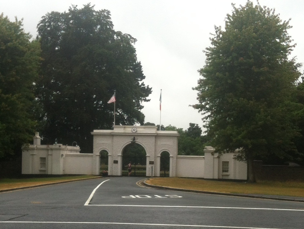 This is a photograph of the front gate of the American Ambassador's Residence in Dublin, Ireland